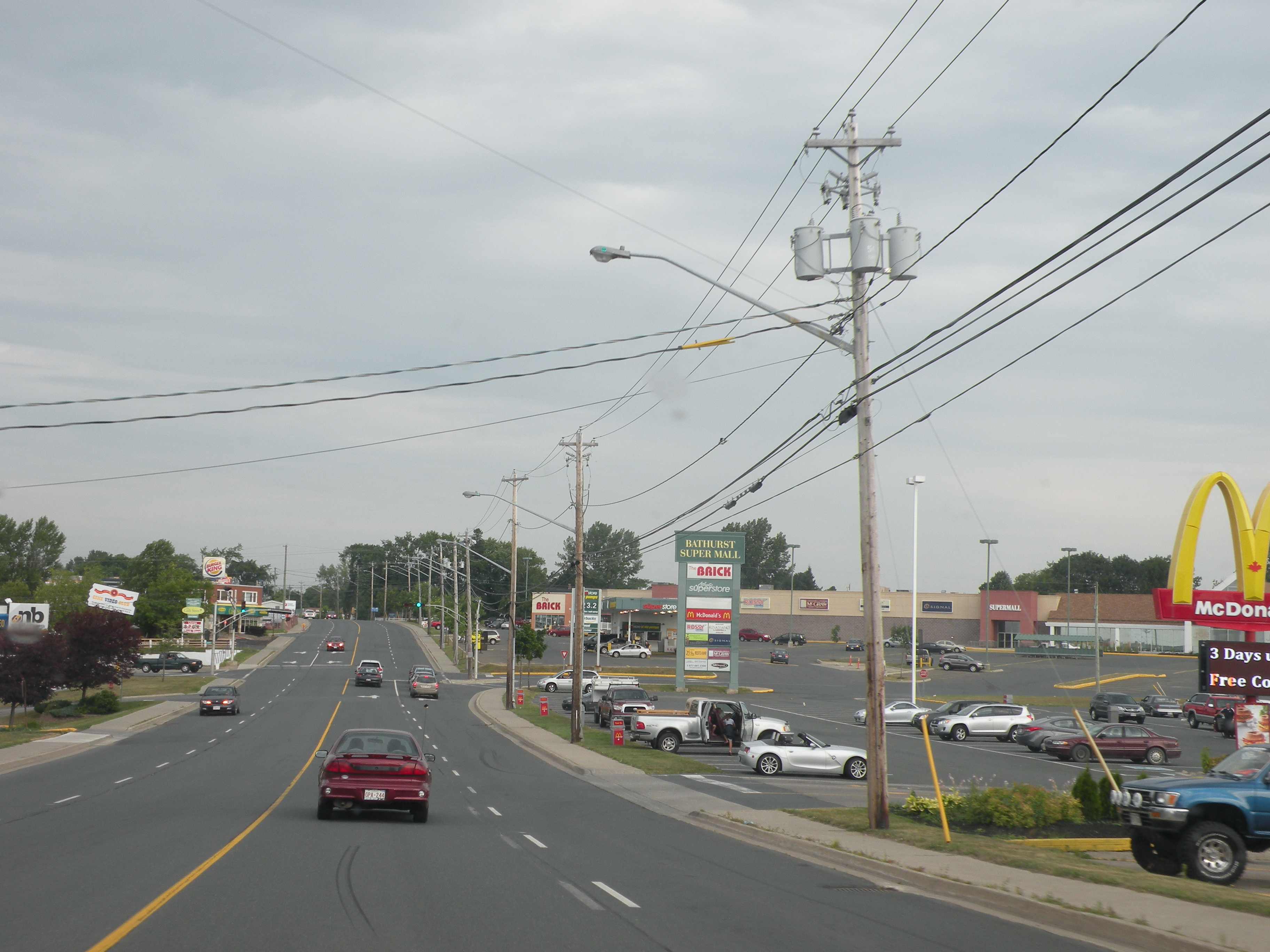 Bathurst, New Brunswick, Canada. It's also road 134.